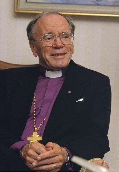 John Vikström, Archbishop of Turku and Finland from 1982 until 1998